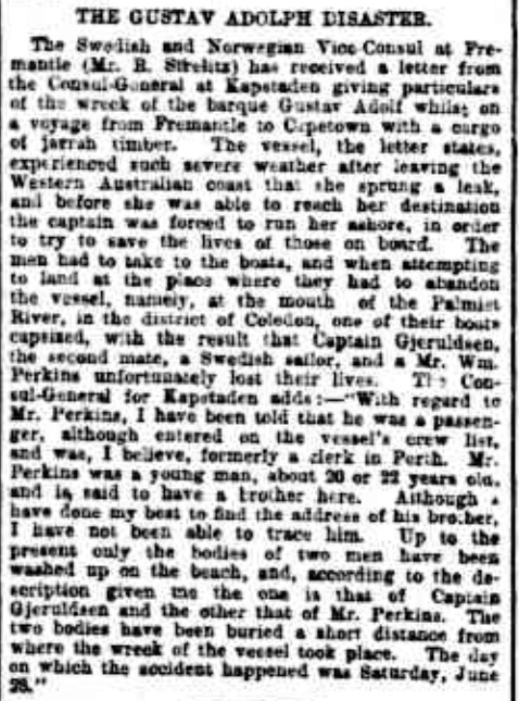 Item from the 'The West Australian' of 3 Sept 1902 giving an account of the wrecking of the Gustav Adolph.